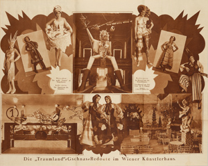 Künstlerhaus Archiv Publikation zum Gschnas-Fest Gross-Peking, 29. Februar 1892 (Künstlerhaus Archiv) © Künstlerhaus Archiv